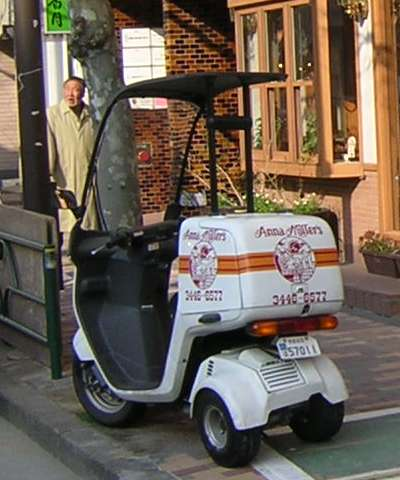 Honda Canopy in Anna Miller's livery taken in late February 2004 in Tokyo's Hiro-o district by the uploaded, licensed under GFDL. Cropped down from original image used here Other images available, and will be uploaded under same license on request (use the mail link to contact me or leave a message on my english wikipedia talk page).